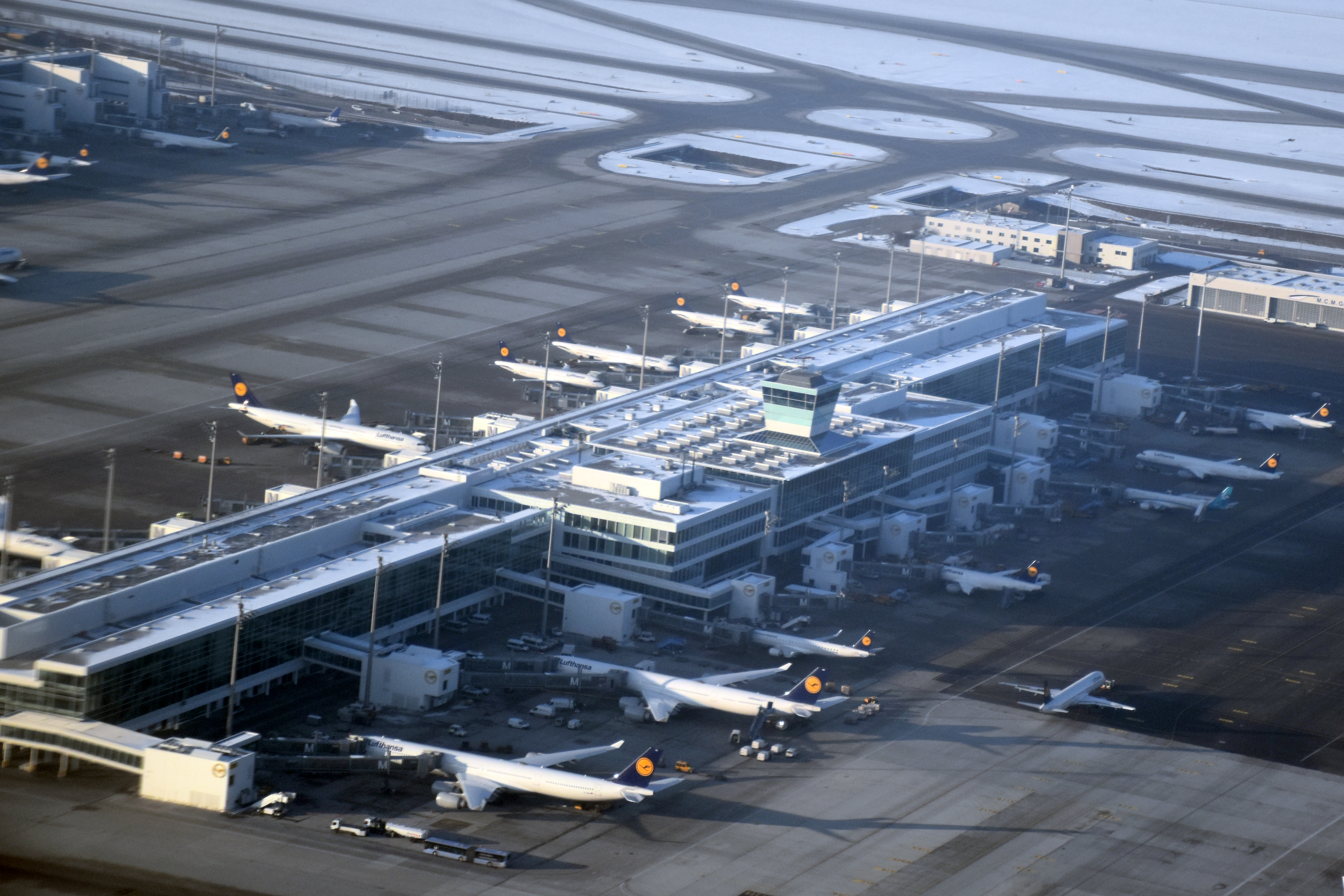 Aerial view of Terminal 2 Satellite of Munich Airport.